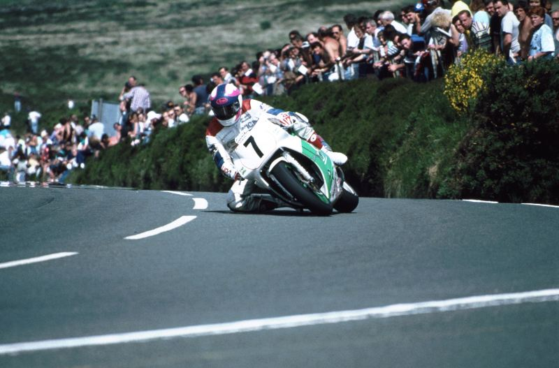 Nick Jefferies on his Honda RC30 at Creg-ny-Baa on the Isle of Man